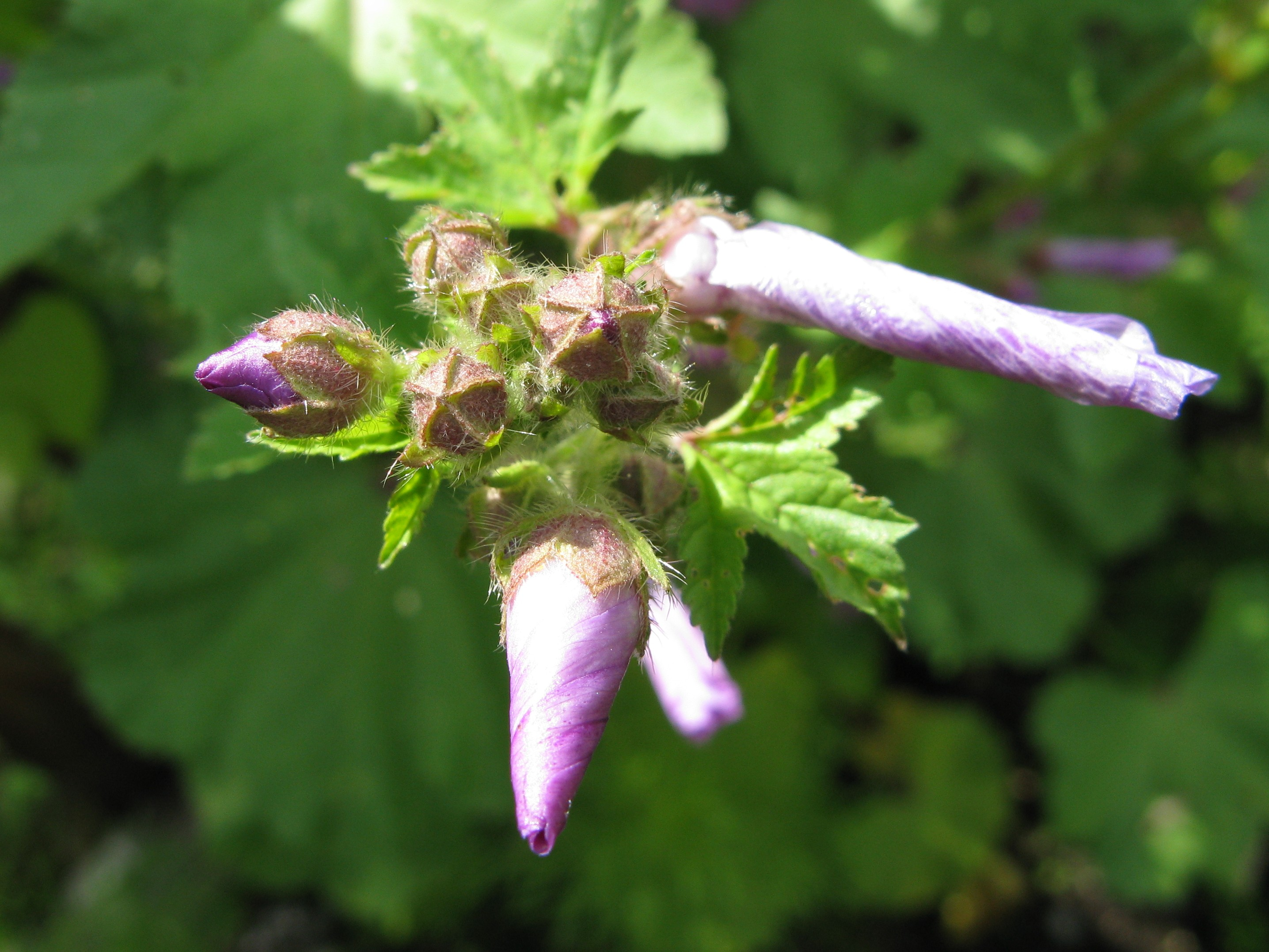 Bud of a mallow.